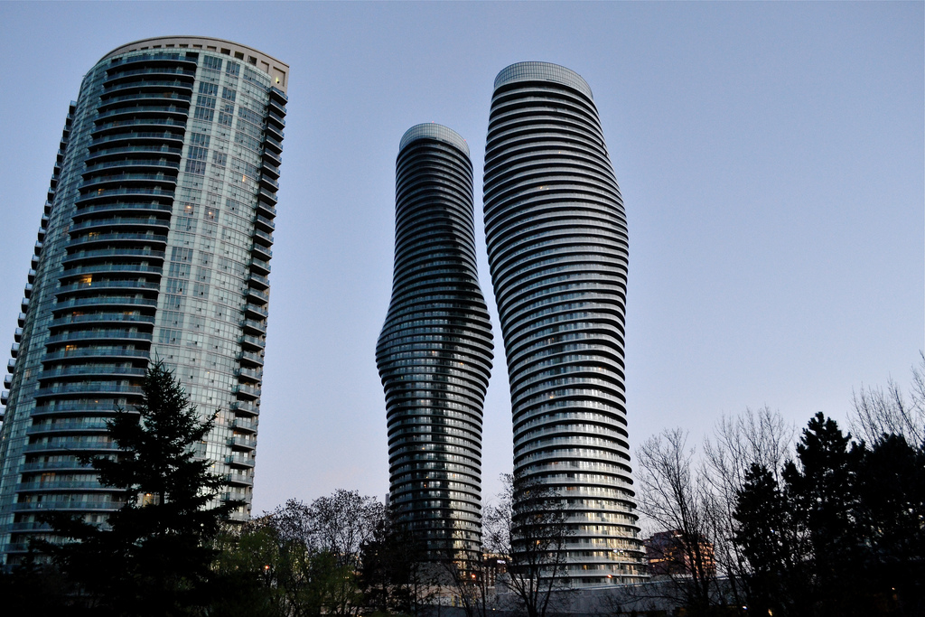 Absolute Towers